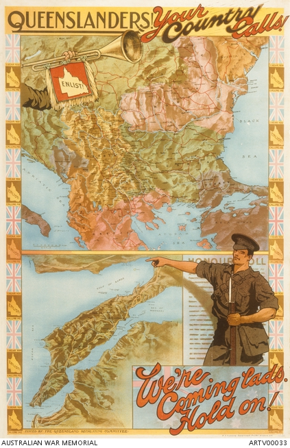 "Queenslanders, your country calls!", military recruitment poster, probably commissioned by the Queensland Recruiting Committee, circa 1915